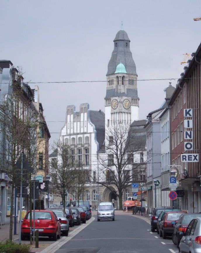 I uploaded this image from the German wikipedia, where it is licensed under creative commons and thus it can be copied, distributed and transmitted.